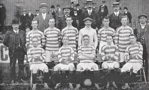 A photograph of the Queens Park Rangers squad from 1911/12, the in which they won the Southern League for the second time and took part in their second Charity Shield match.